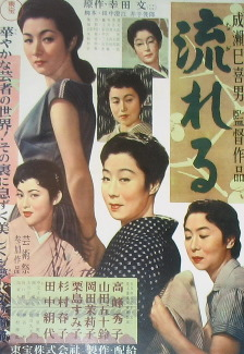 1956 Japanese movie poster for 1956 Japanese film Flowing (Nagareru)